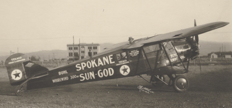 Buhl CA-6 Air Sedan. "Spokane Sun God". Art Walker co-pilot at the refueling hole. Nick Mamer was the pilot. Felts Field 1929 Rutter, East - 5100